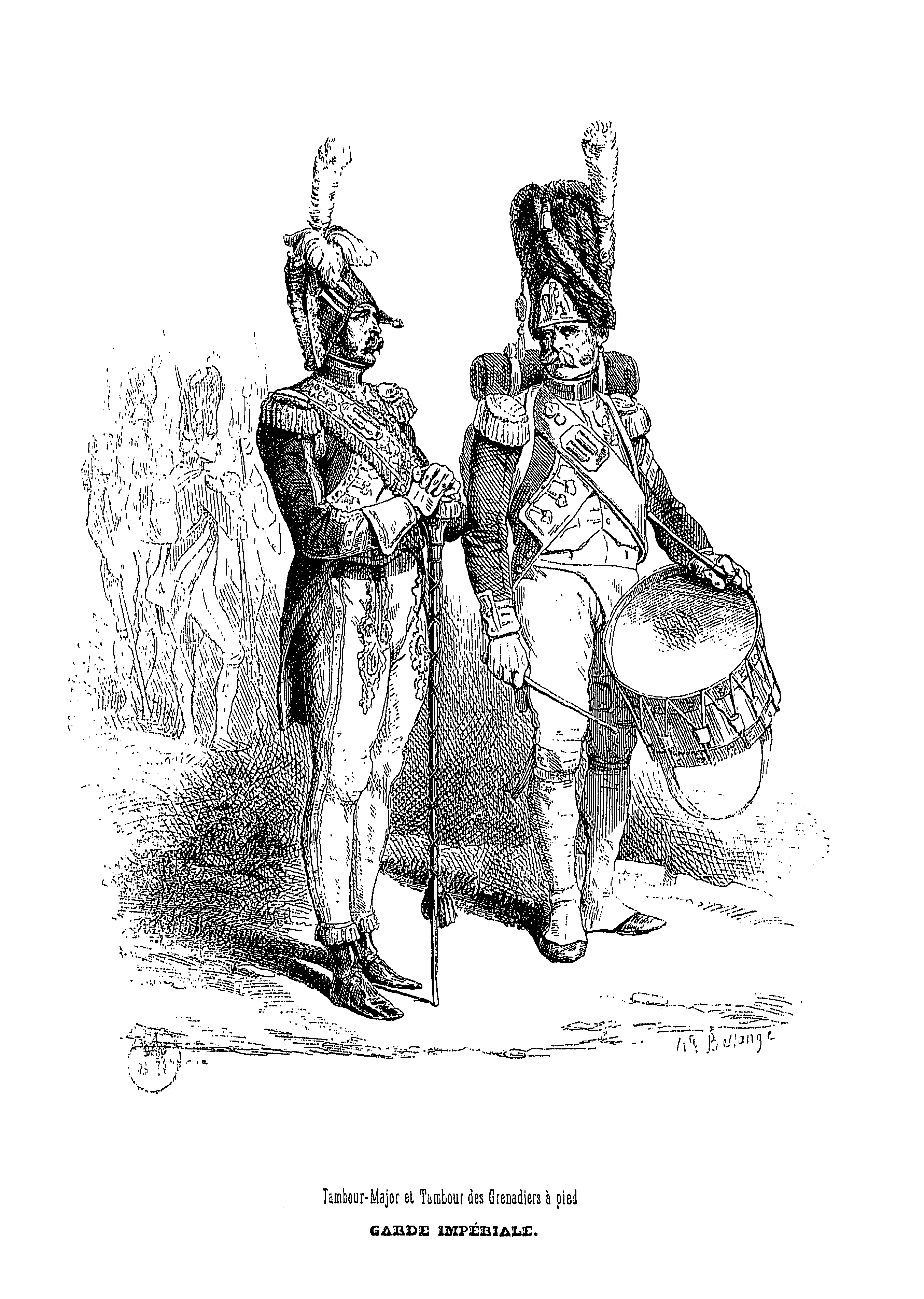 Jean Nicolas SENOT (1761-1837), Drum Major of the Ist Regiment of Foot Grenadiers of the Imperial Guard, engraving from the "Histoire de la Garde Impériale", by Emile Marco de Saint-Hilaire, Paris, 1846.